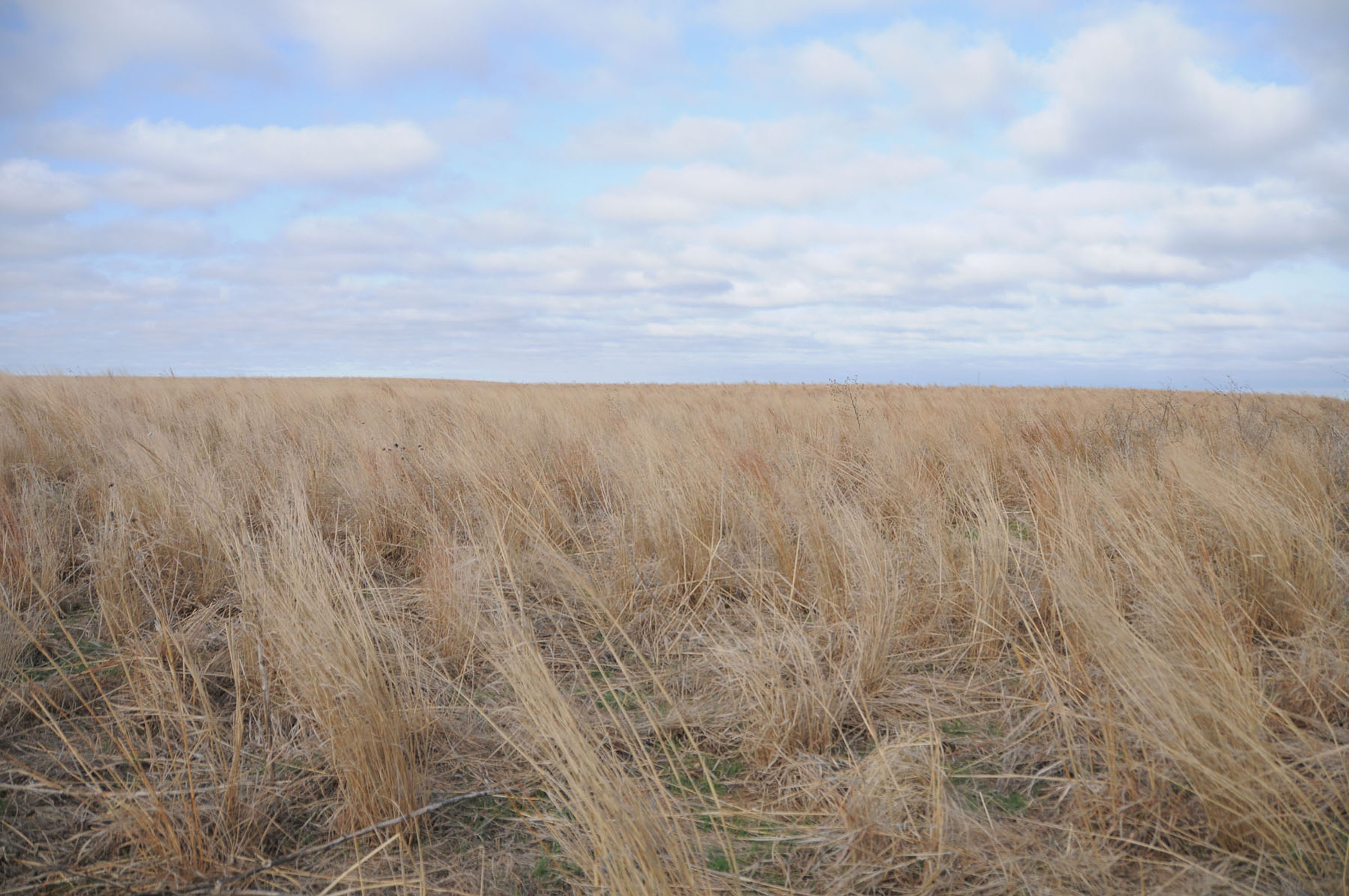 Greensburg, Kansas, April 25, 2008 -- Just outside city limits and for miles around, wheat grows one year after the tornado that devastated Greensburg, Kansas. FEMA photo/ John Shea.